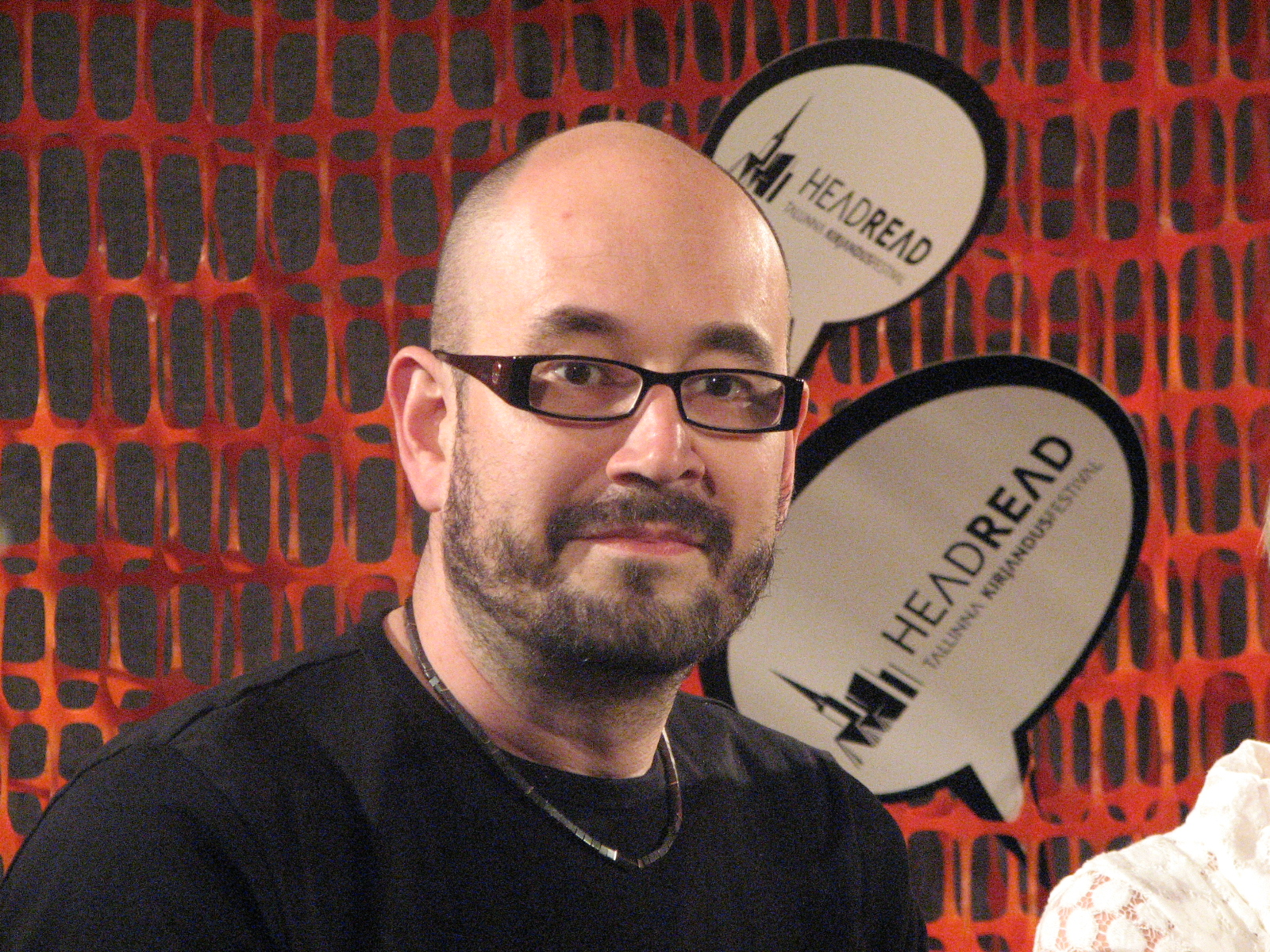 Asko Künnap performing in literature festival HeadRead